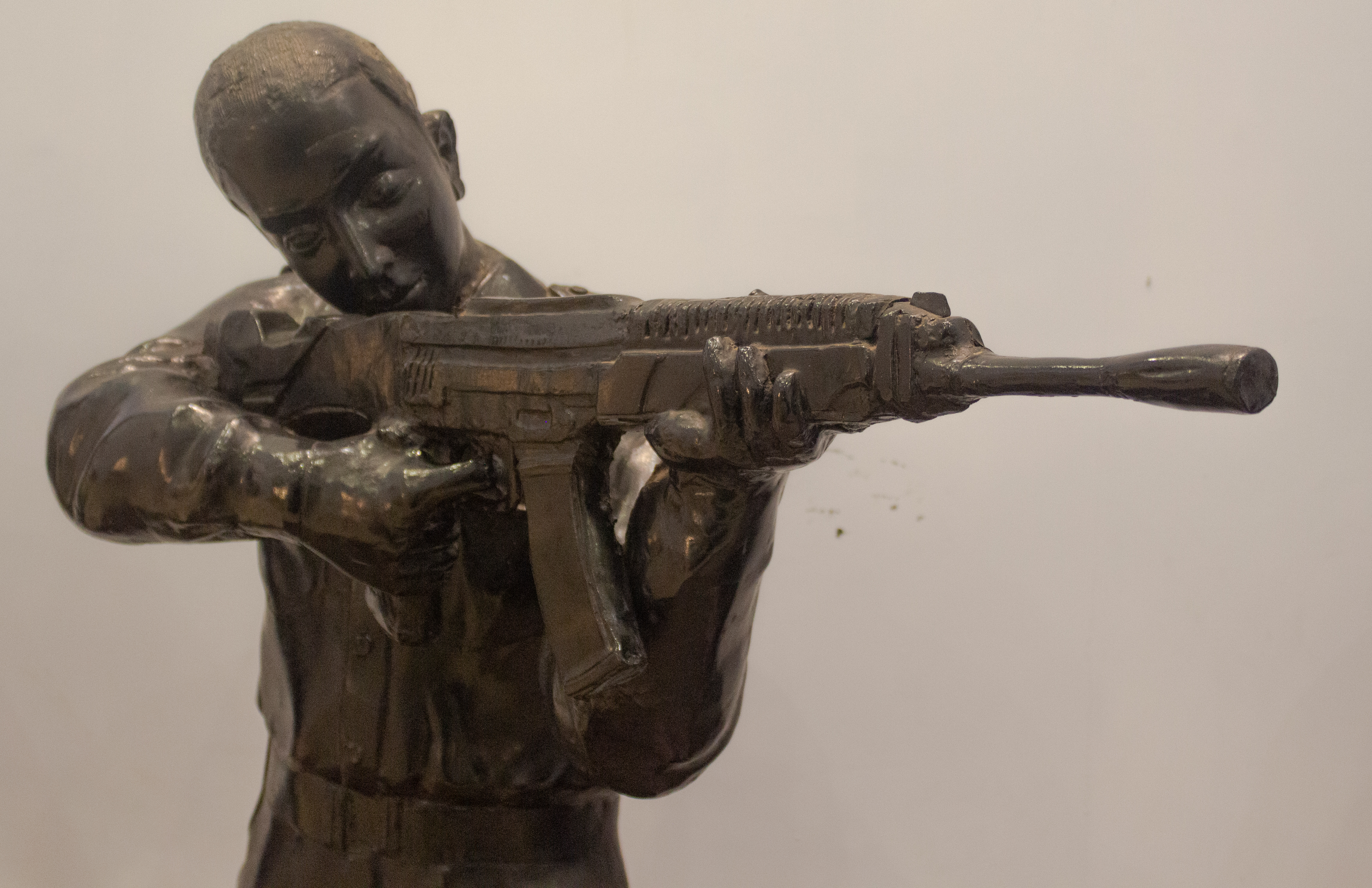 Statue of a Marine Commando of the Indian Navy, on display at Visakha Museum, Andhra Pradesh, India. Object location17° 43′ 14.55″ N, 83° 20′ 01.79″ E